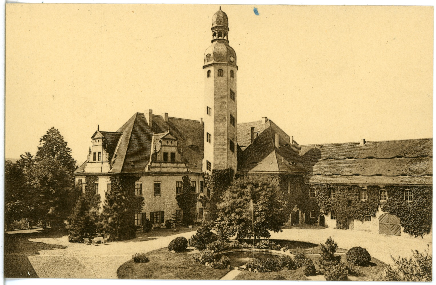 This postcard is from publisher Brück & Sohn in Meißen ( This postcard has a unique number 19080 and is available in a higher resolution at the publisher. This images was uploaded in a cooperation project between Wikipedians and the publisher.